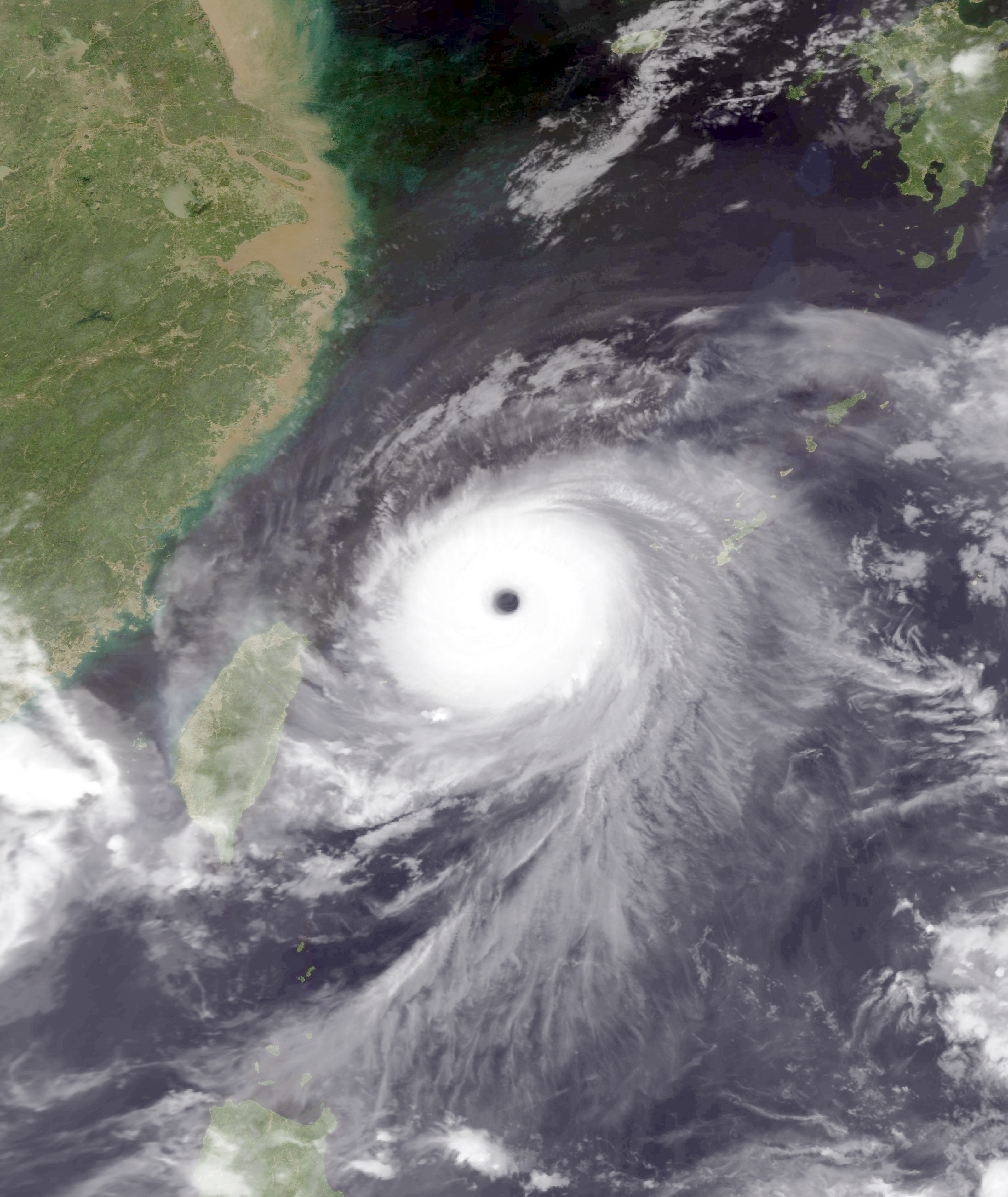 Typhoon 08W (Saomai) 2006-08-09 11-30Z